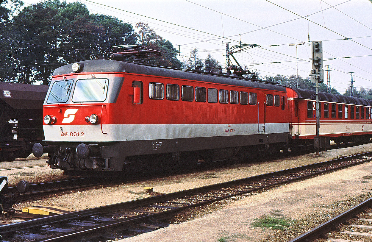 ÖBB 1046 001-2 with a regional train on the Franz-Josefs-Bahn in Sigmundsherberg station.